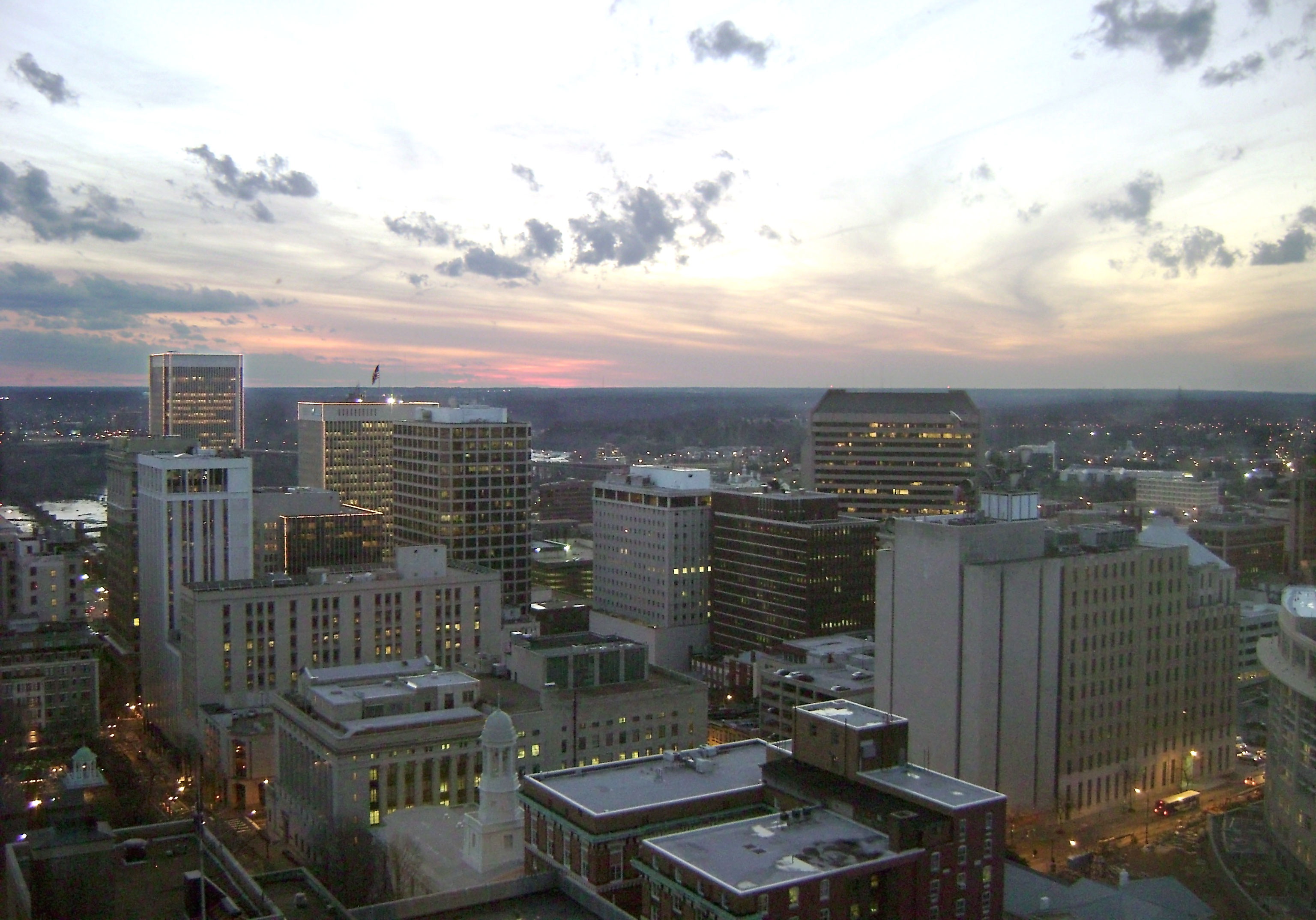 View of City of Richmond business district from City Hall observation deck.